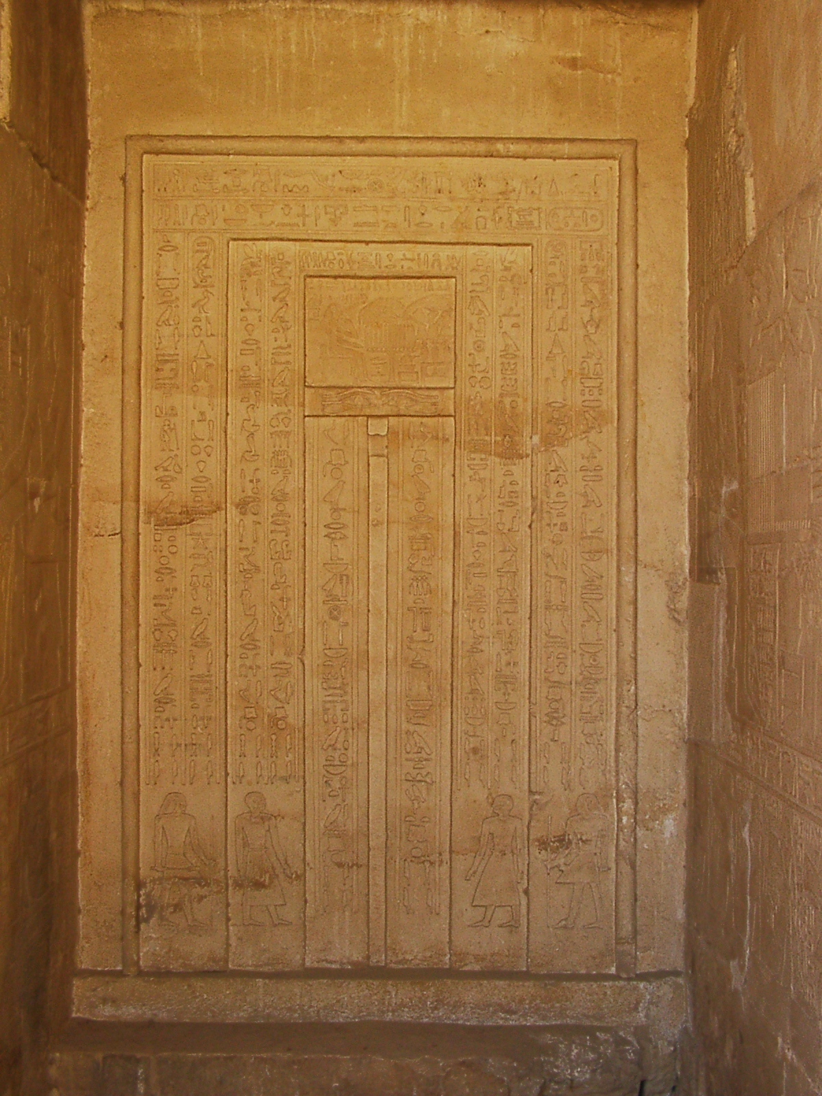 False door of royal prince (repat hati-aa) called Ihy ka-priest of Amenemhat I's pyramid, exhibited at Saqqara (12. dinasty)